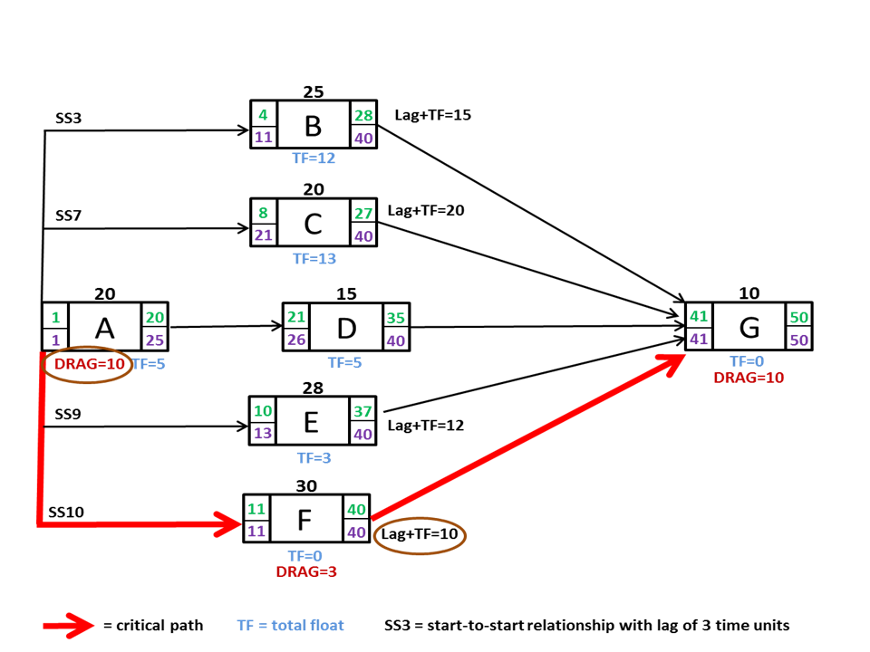 This diagram shows how to compute critical path drag in a start-to-start relationship.